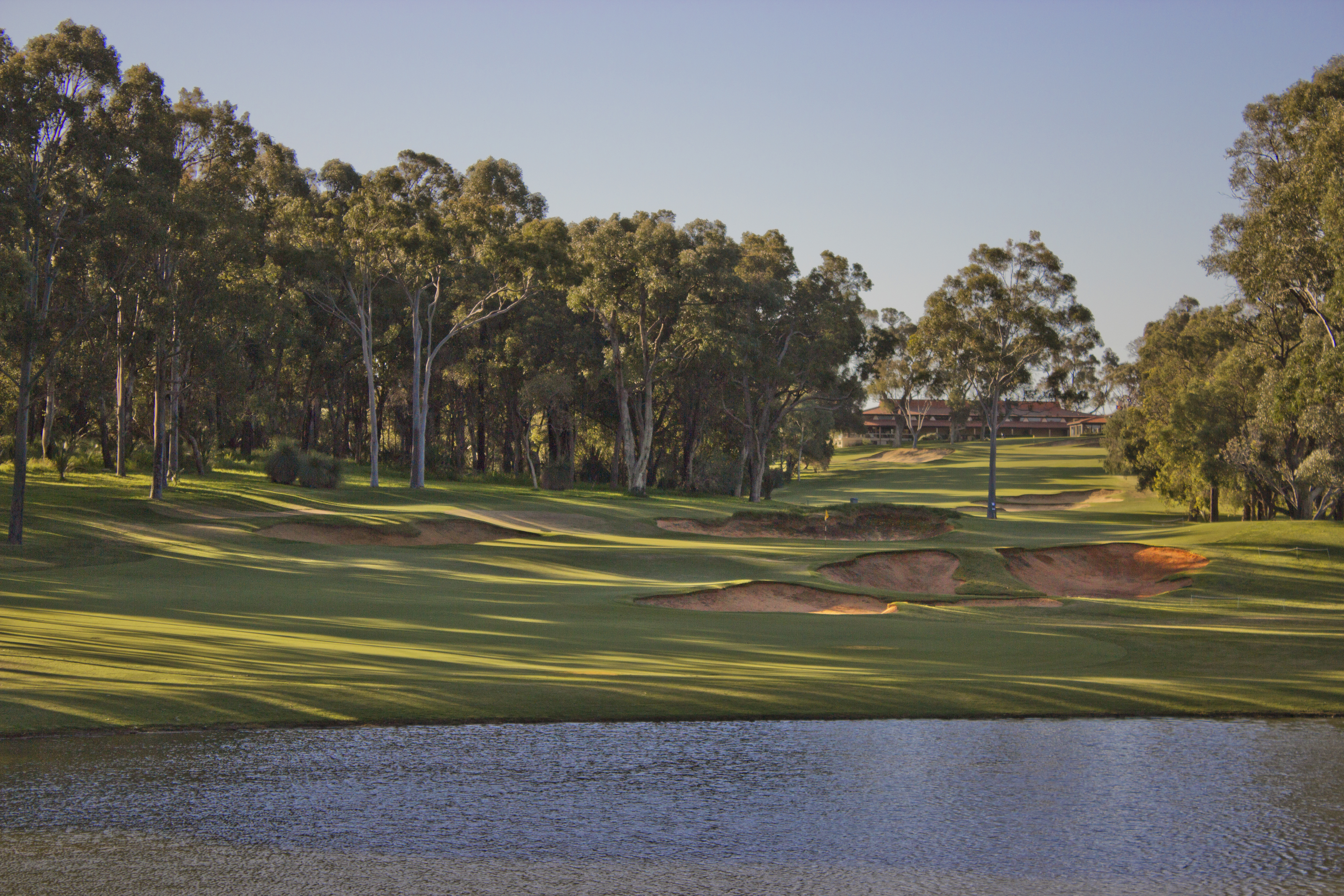 The 8th hole at Lake Karrinyup (late afternoon) from the tee.